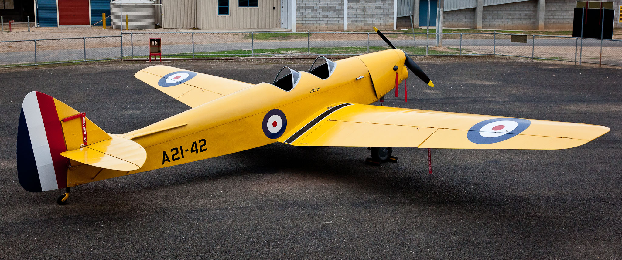 An ex-RAAF de Havilland DH-94 Moth Minor, A21-42; construction number 94067; registered VH-CZB. Pictured at the Benalla Aviation Museum, Vic, Australia.